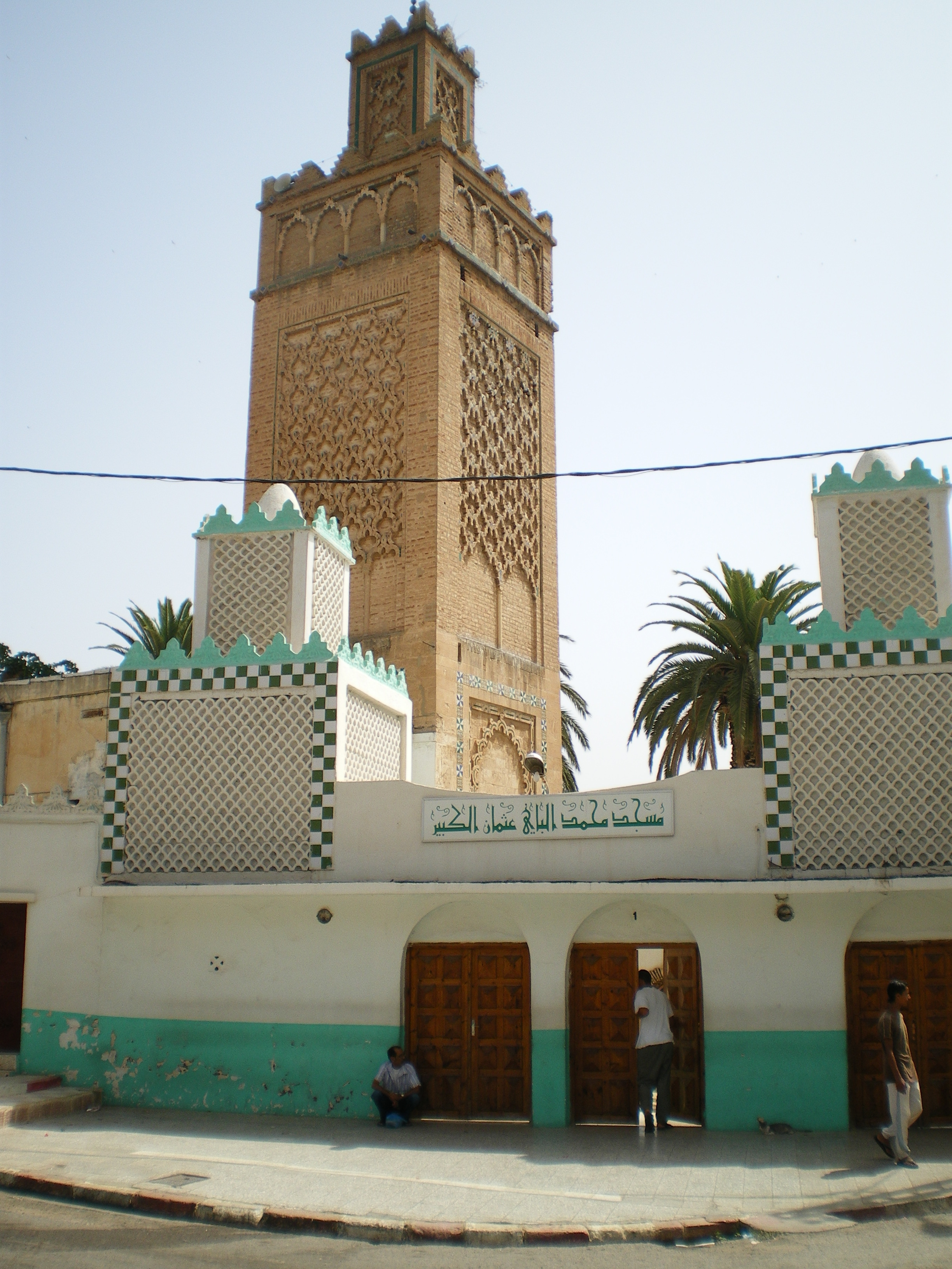 Imam Sidi el-Houari's Mosque, Oran